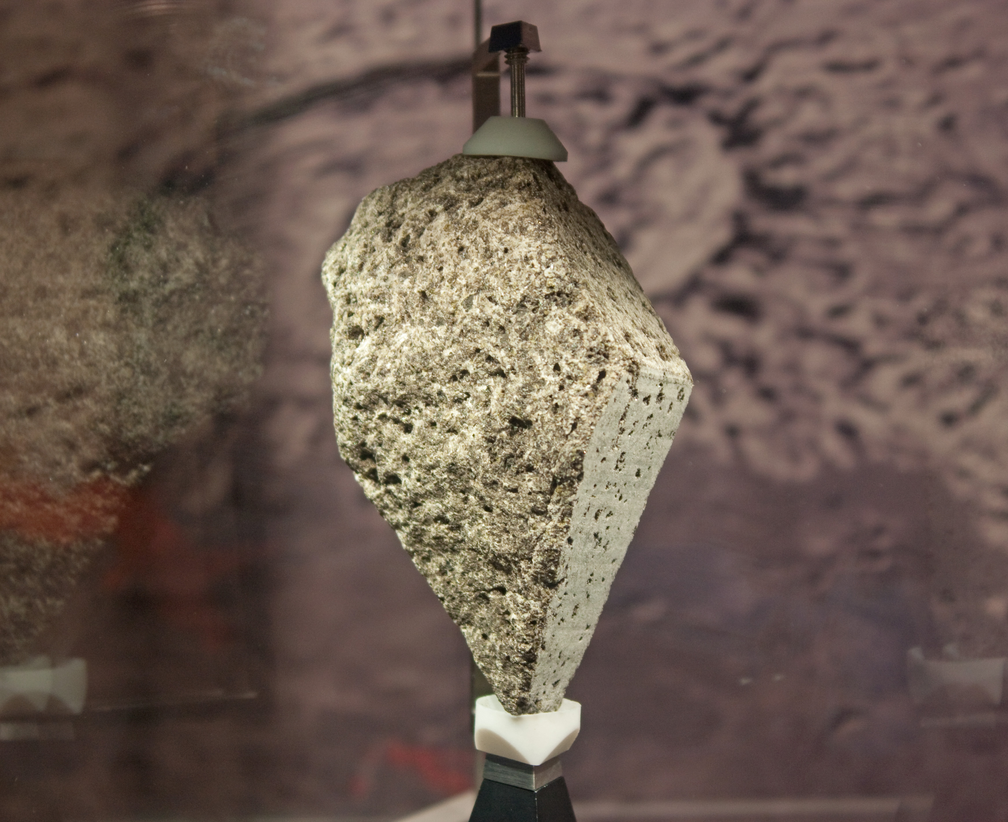 Lunar Olivine Basalt 15555 sample collected from the moon by the Apollo 15 mission, at station 9A on the rim of Hadley Rille. It was formed around 3.3 billion years ago. On display in the National Museum of Natural History.